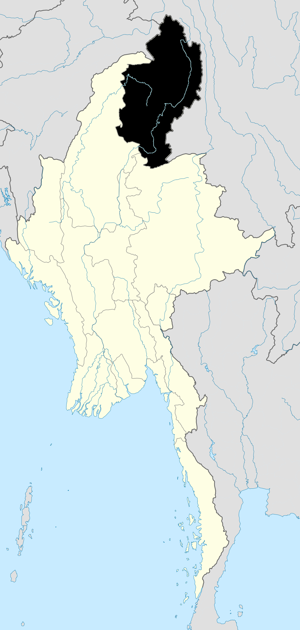 Map showing Kachin State in Burma